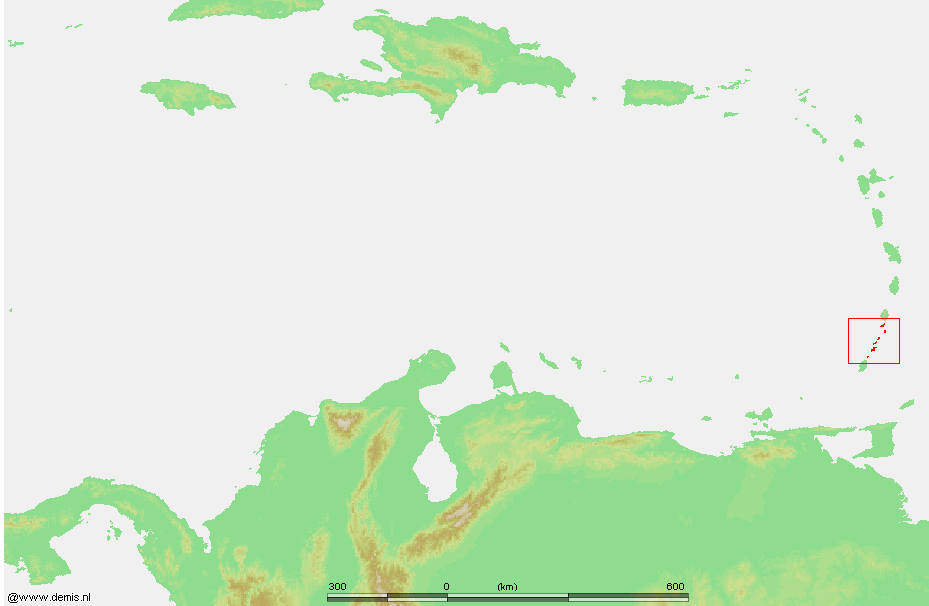 Caribbean - Grenadines.PNG